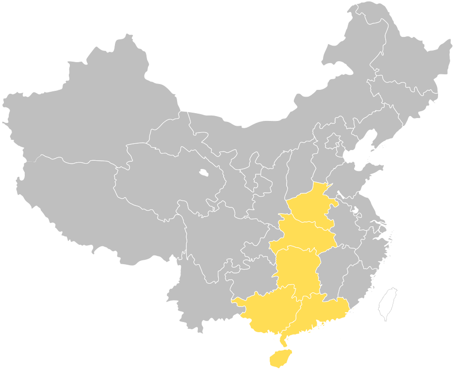 Zhongnan (central and southern provinces of China)